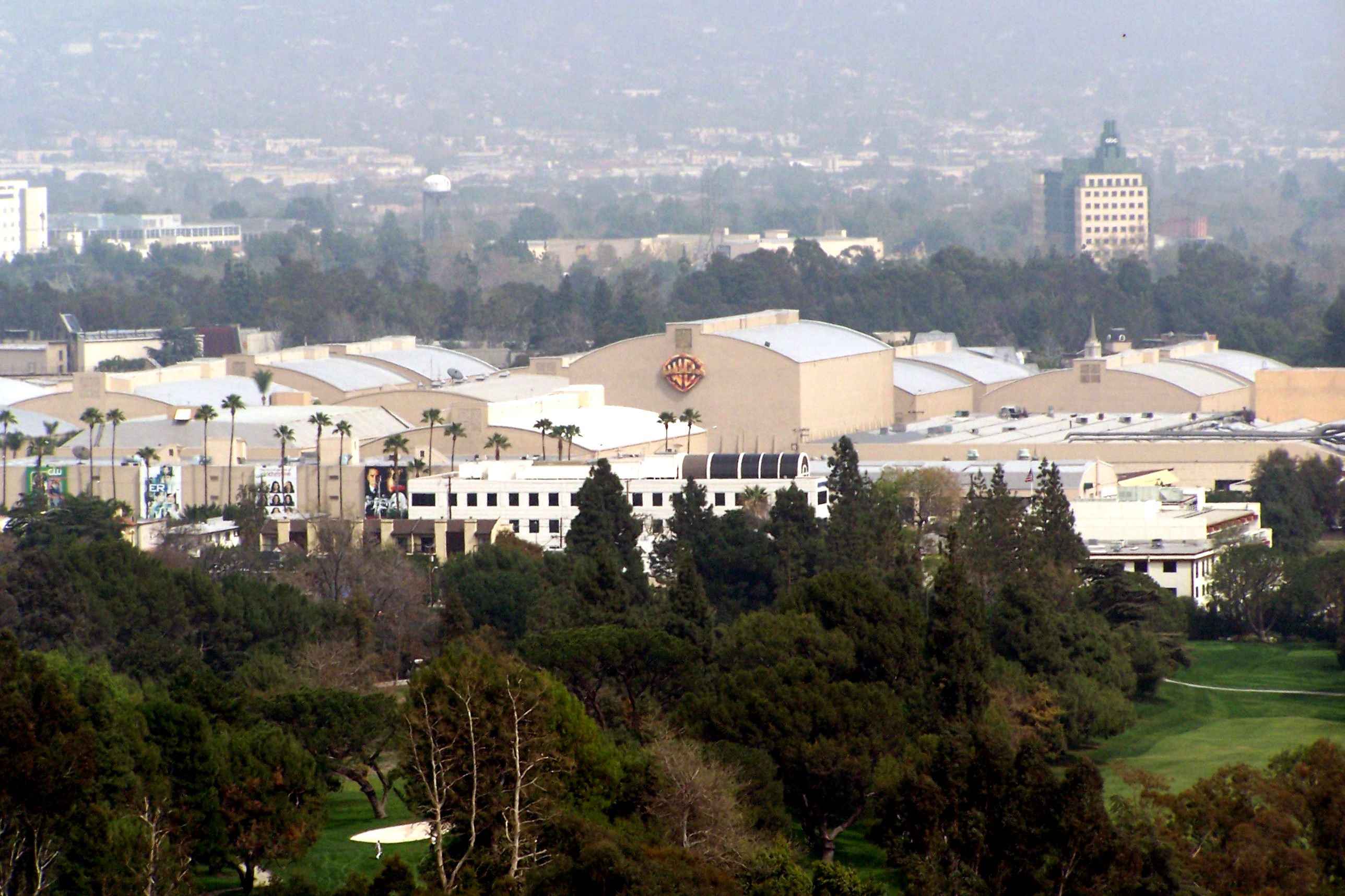 Photo taken on March 9th, 2007 at the vista point at Universal Studios Hollywood. The closest structures are the sound stages of the Warner Bros. Studio Lot. Directly behind them, with only the roofs showing, are the sound stages of the Walt Disney Studios lot, with the ABC Television building directly to the right. The aspect of this angle is approximately East-Northeast.